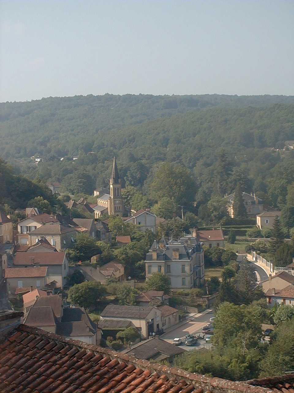 Couze et Saint front (Dordogne)